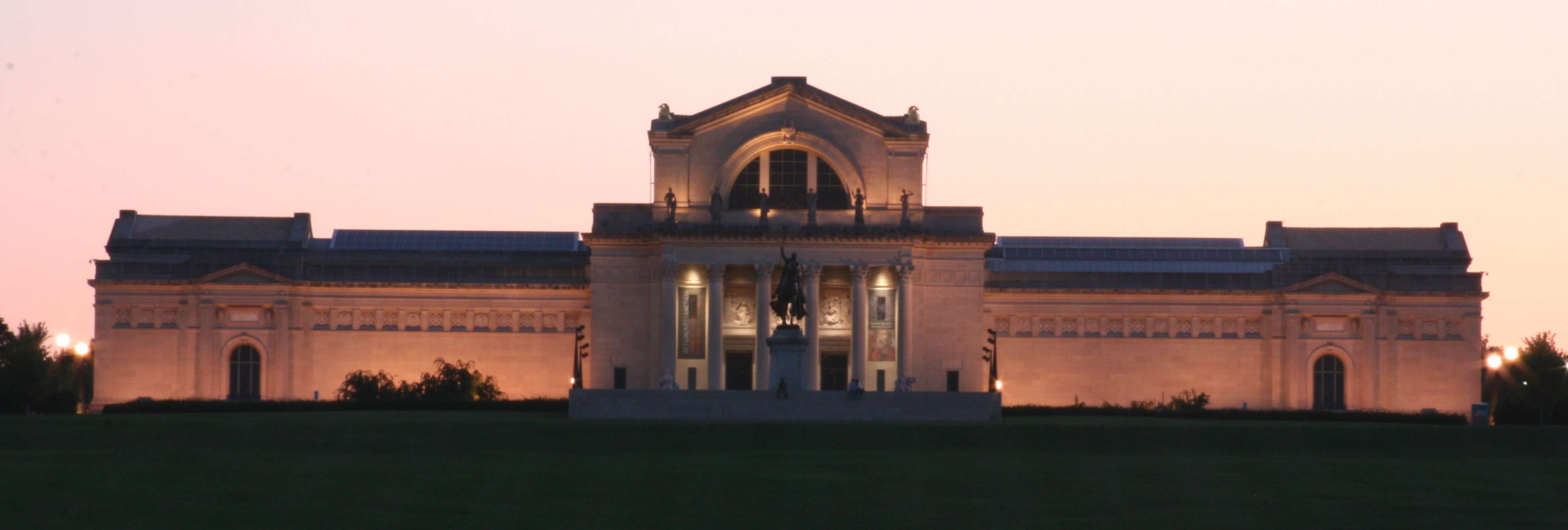 The Art Museum at Forest Park in St. Louis, Missouri at night.